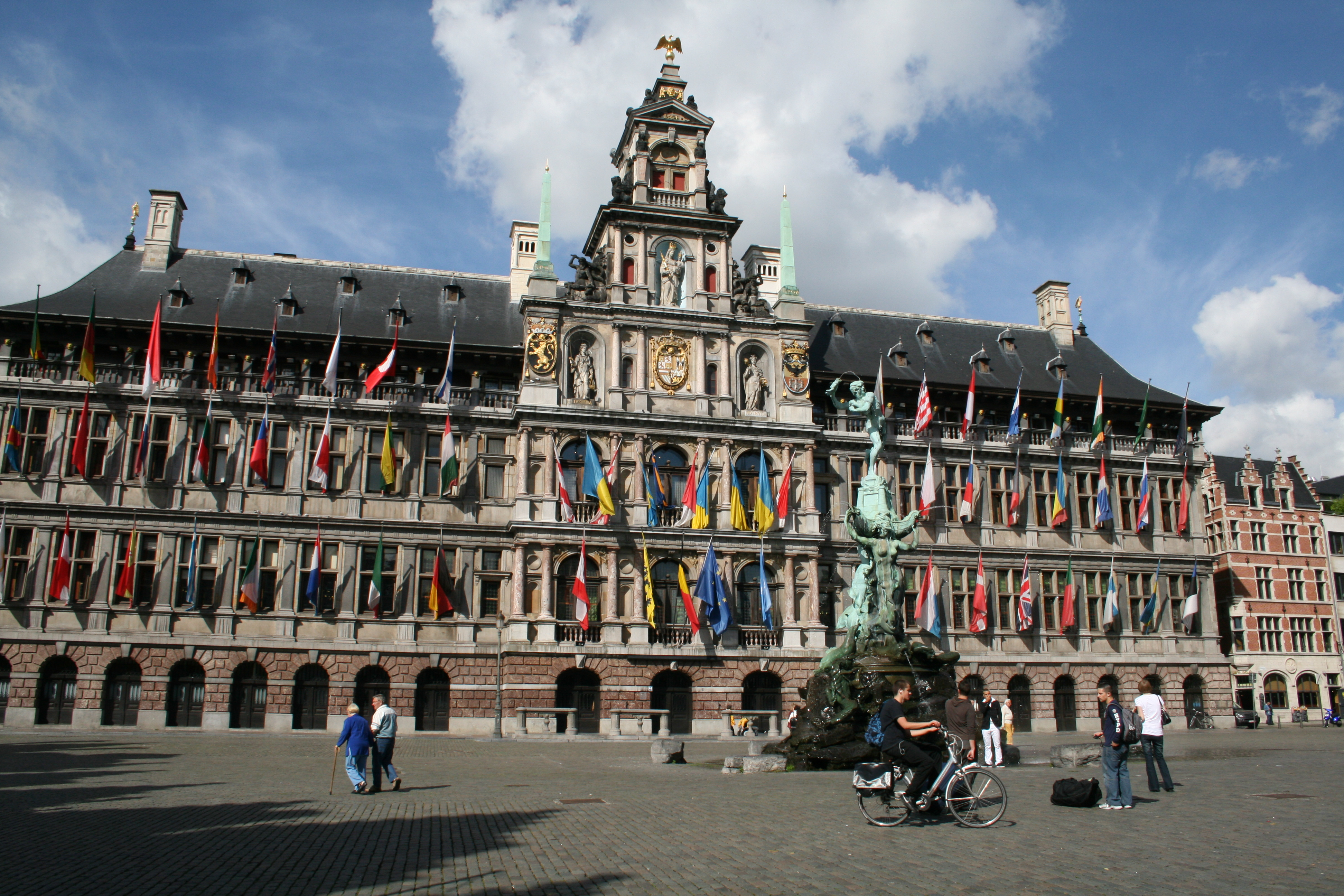 Antwerp town hall (1561-1564 - architect: Cornelis Floris de Vriendt.